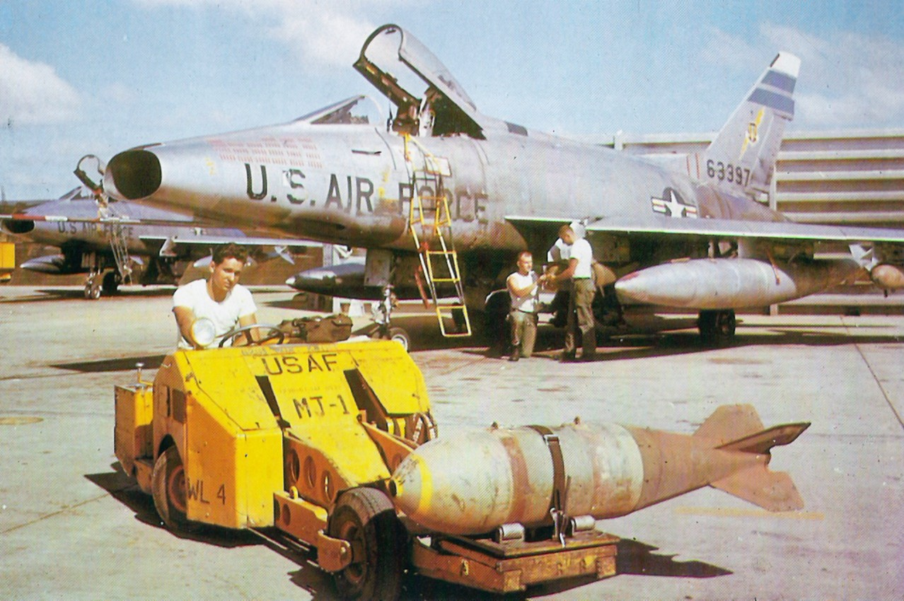 A North American F-100D Super Sabre (s/n 56-3397) of the 308th Tactical Fighter Squadron, detached from the 31st Tactical Fighter Wing, assigned temporarily to the 3rd Tactical Fighter Wing, being loaded with M117 750 lb bombs at Bien Hoa, South Vietnam, in early 1966. This plane was retired to the MASDC on 26 January 1979 as FE0453.